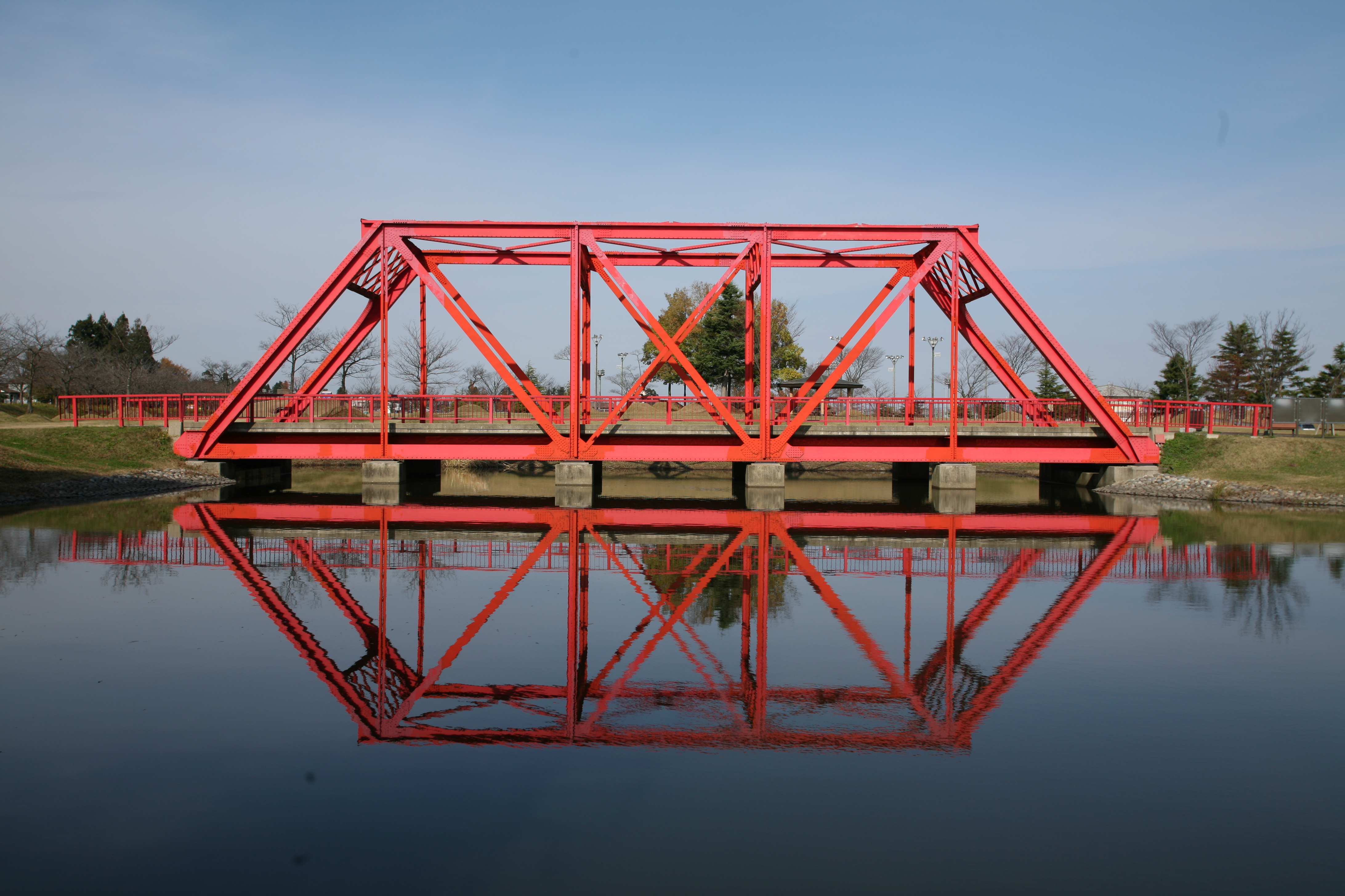 The former Koshiji Bridge of Nagaoka City,Niigata Pref.,Japan.This truss was manufactured by Handyside & Co. of first,this was the former Shinanogawa Bridge of J.N.R Shin-etsu Line.It was removed in 1952,then diverted as a car traffic bridge,Koshiji-Bashi Bridge in 1957.In 1998,it was closed.In 2002,shortened as 3 panels and repladed to Koshiji-bashi park.It will be preserved there.